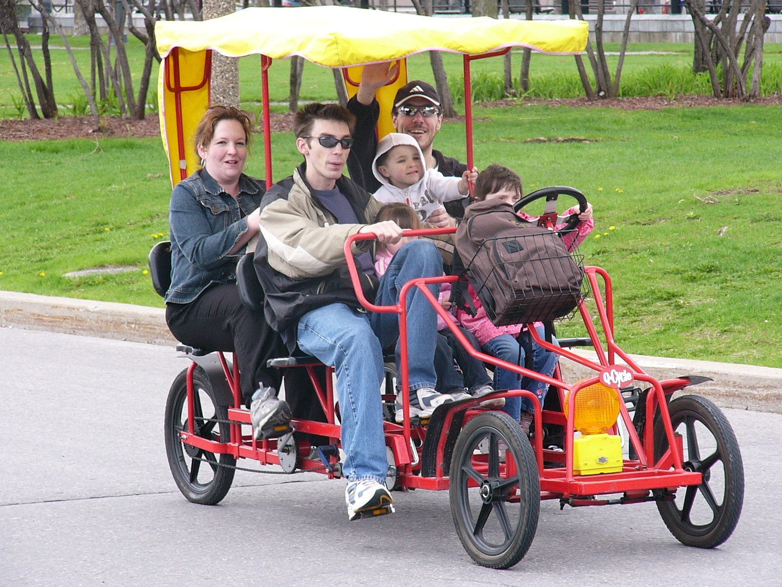 A Quadricycle International Q-Cycle 6 at the Old Port of Montreal docks, Montreal, Quebec, Canada.